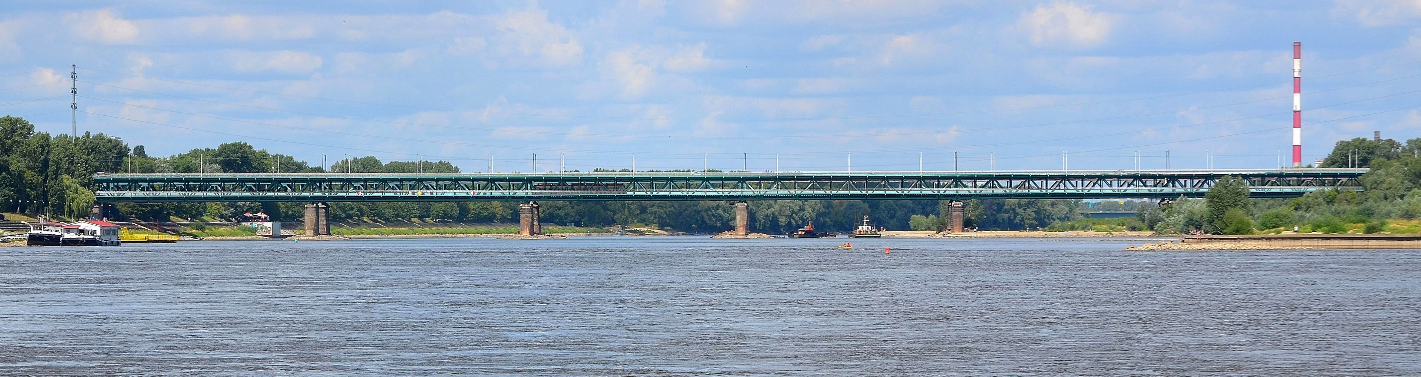 Gdański Bridge in Warsaw